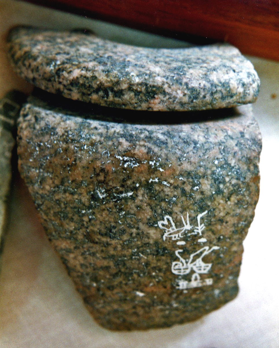 Fragment of a pink and green granite vase bearing the Nebty name "Hetep" of king Hotepsekhemwy. Discovered in the exterior of the galleries H and B of the pyramid of Djoser. Now in the Egyptian Museum JE 55262.